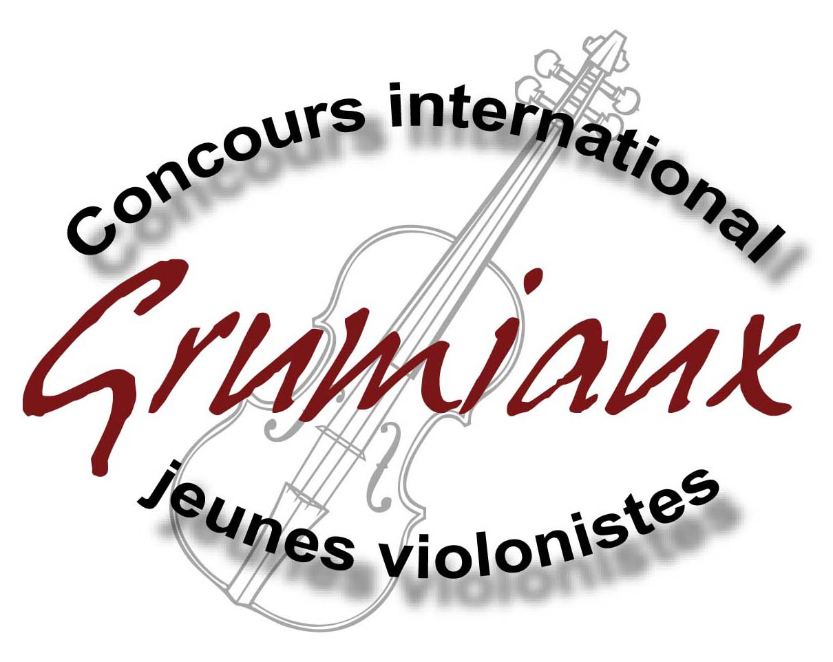 Logo of the International Arthur Grumiaux Competition for yougn violinists